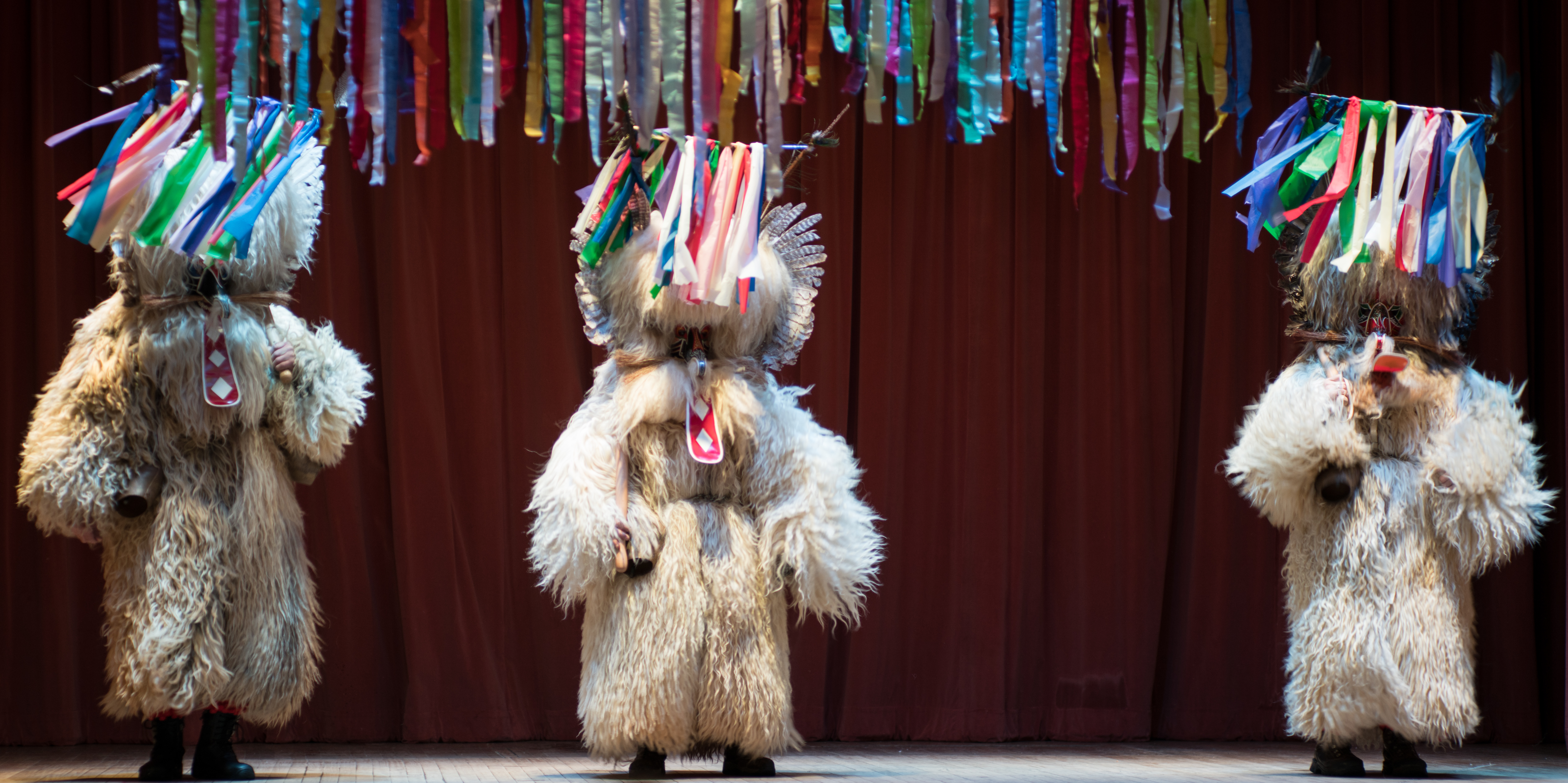 DtD 76 - Slovenian National Home, Cleveland